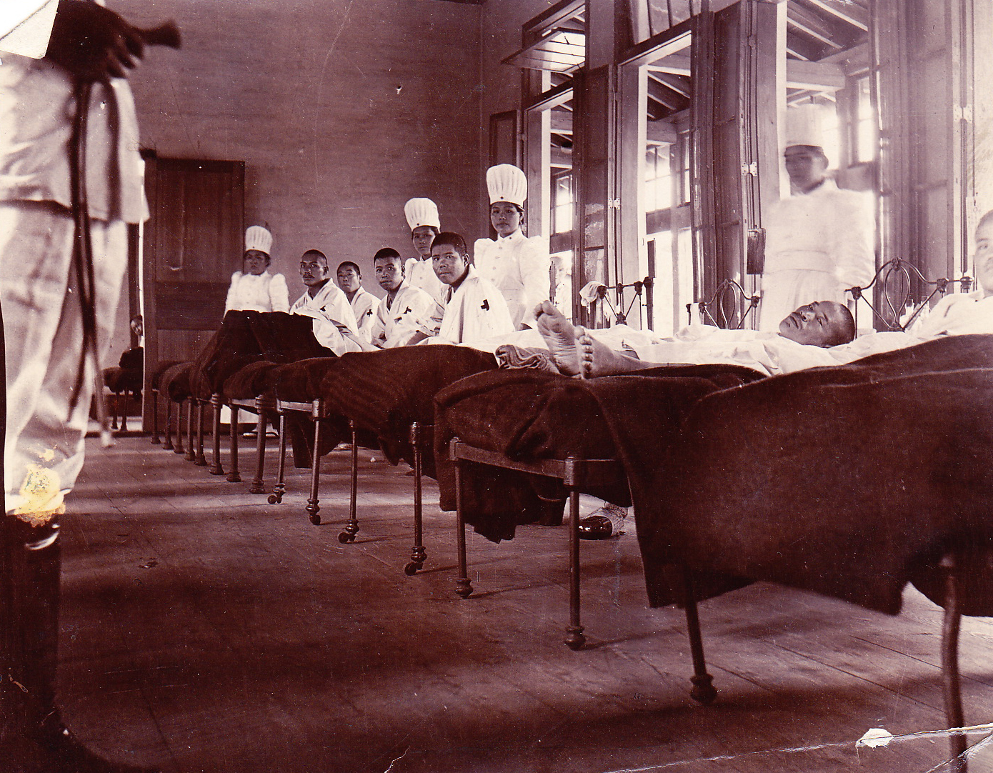 A picture taken by Josef Hammar inside a Tokyo hospital in 1905